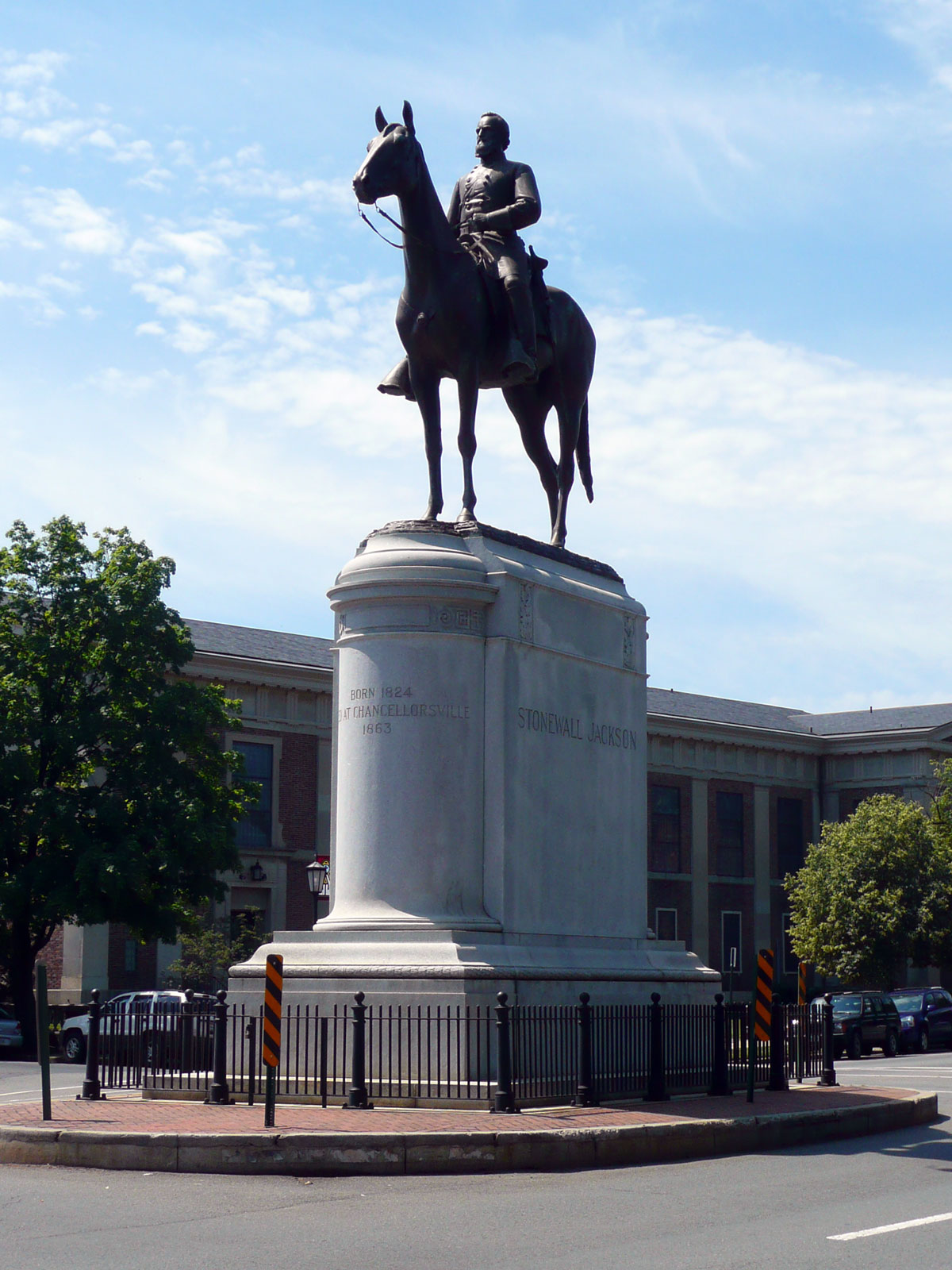 Photograph of Monument Ave., Richmond, VA, statue of Stonewall Jackson.